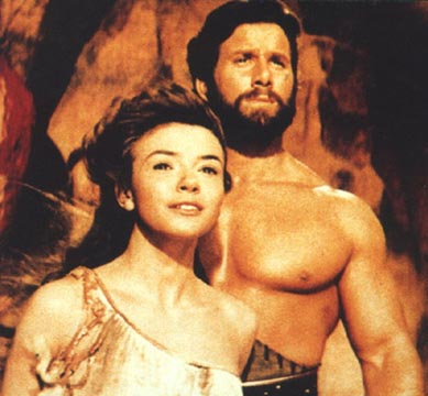 Screenshot from the film Ercole alla conquista di Atlantide (1961)